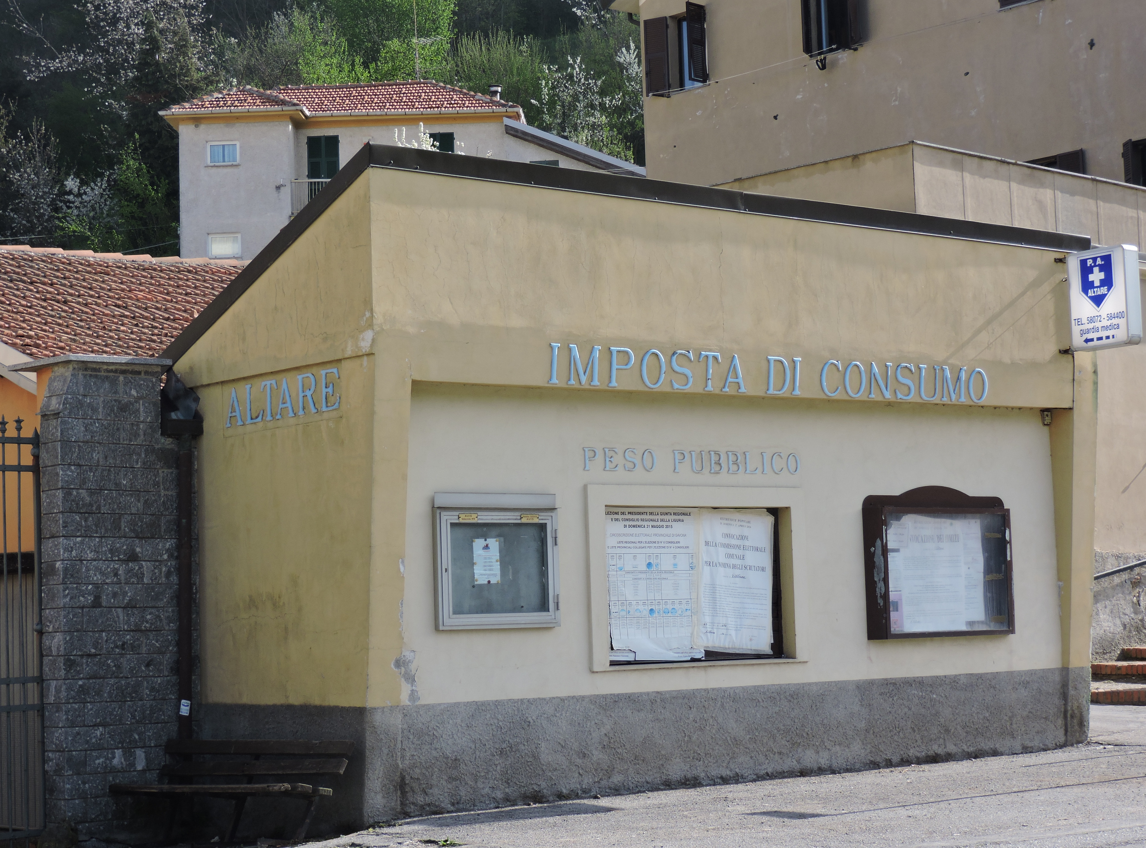 Altare (SV, Italy)ː pubblic scale